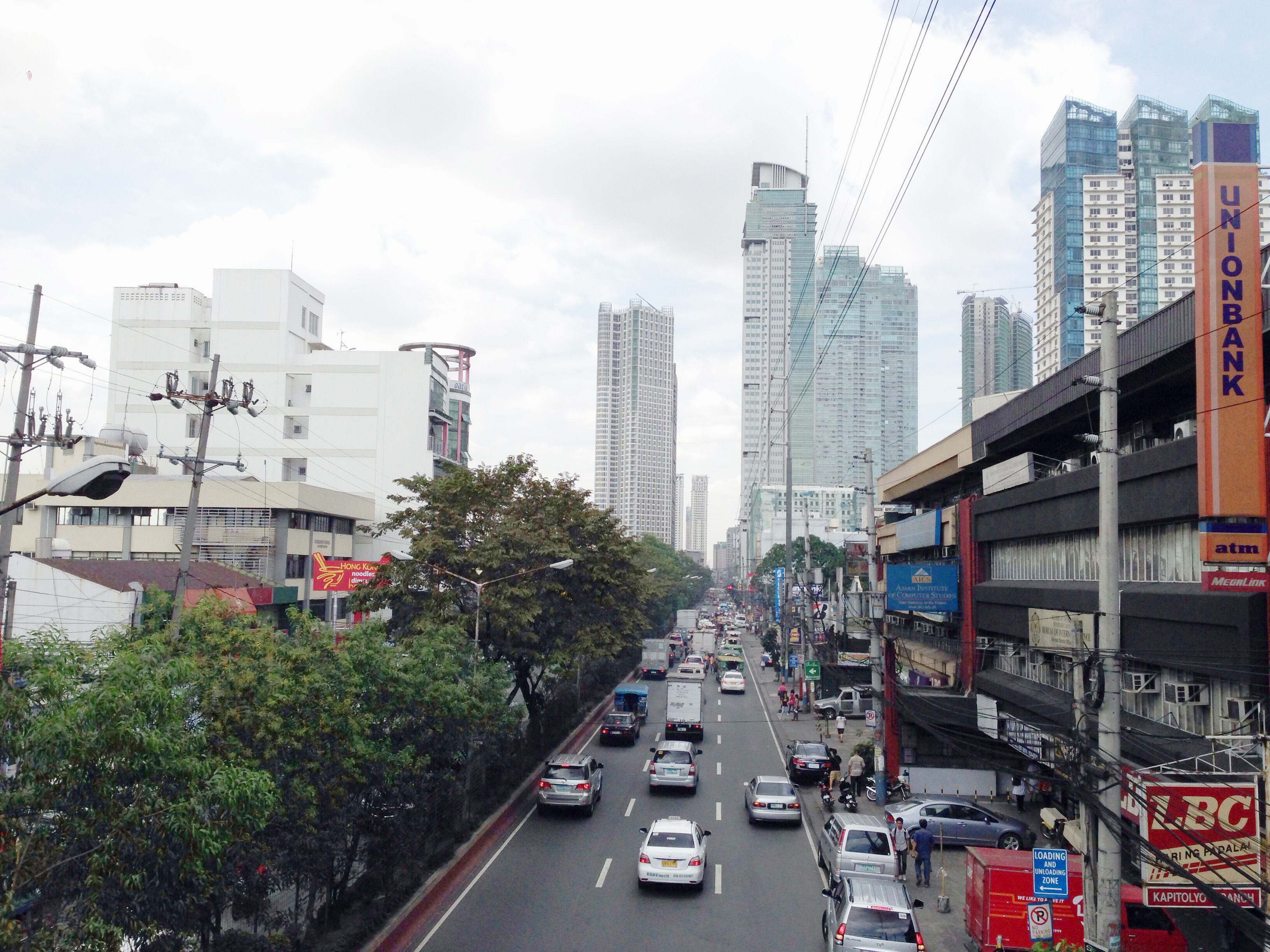 Shaw Boulevard near Capitol Commons, Ortigas Center, Kapitolyo, Pasig, Manila